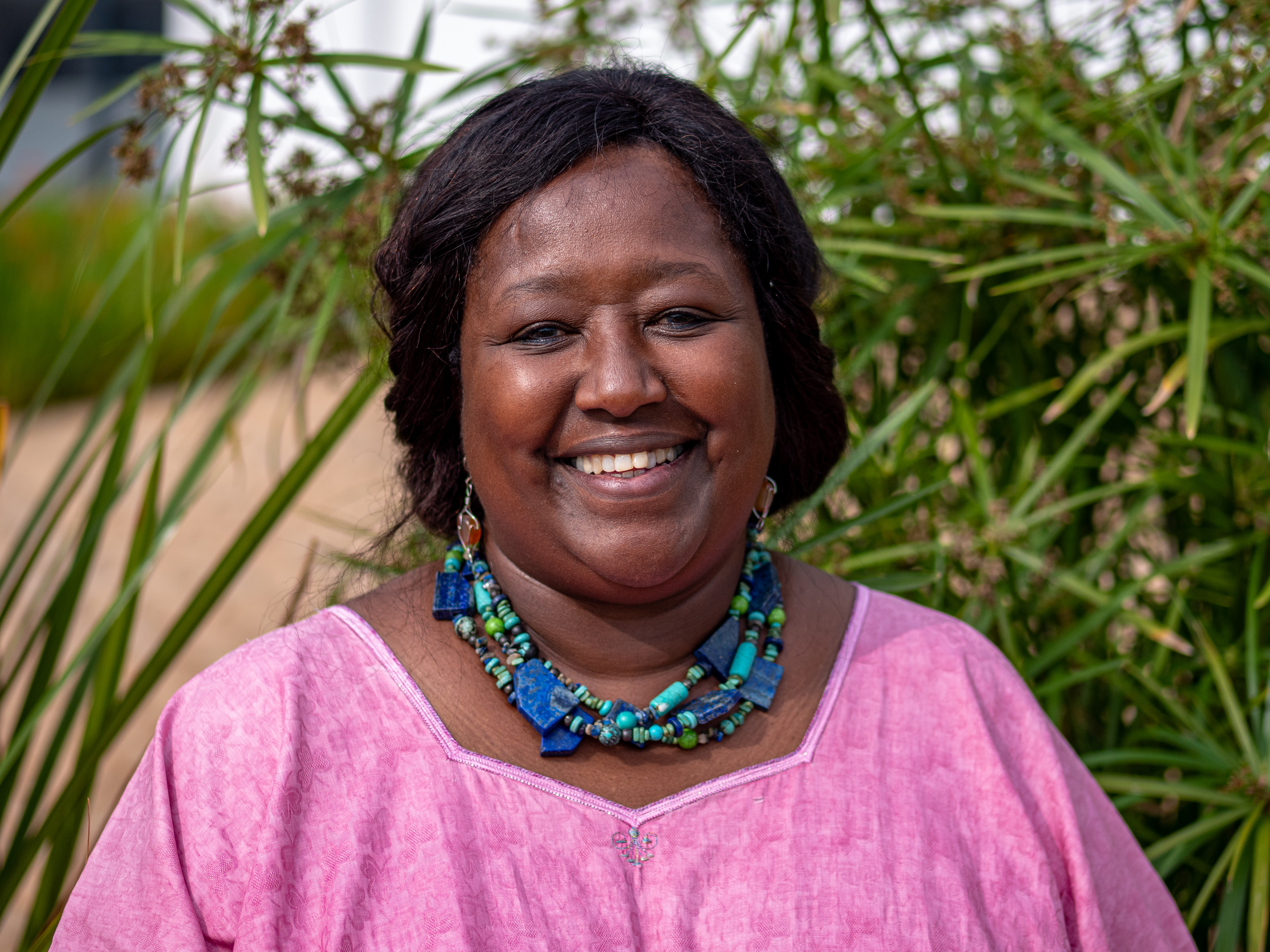 Agnes Binagwaho headshot